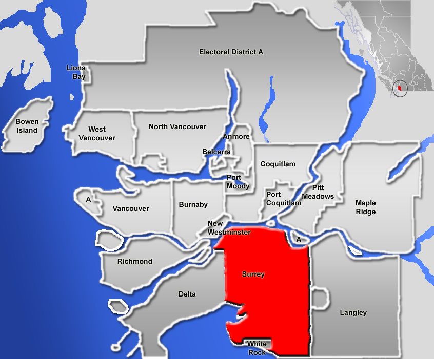 Location of Surrey, Greater Vancouver Area, British Columbia Other versions